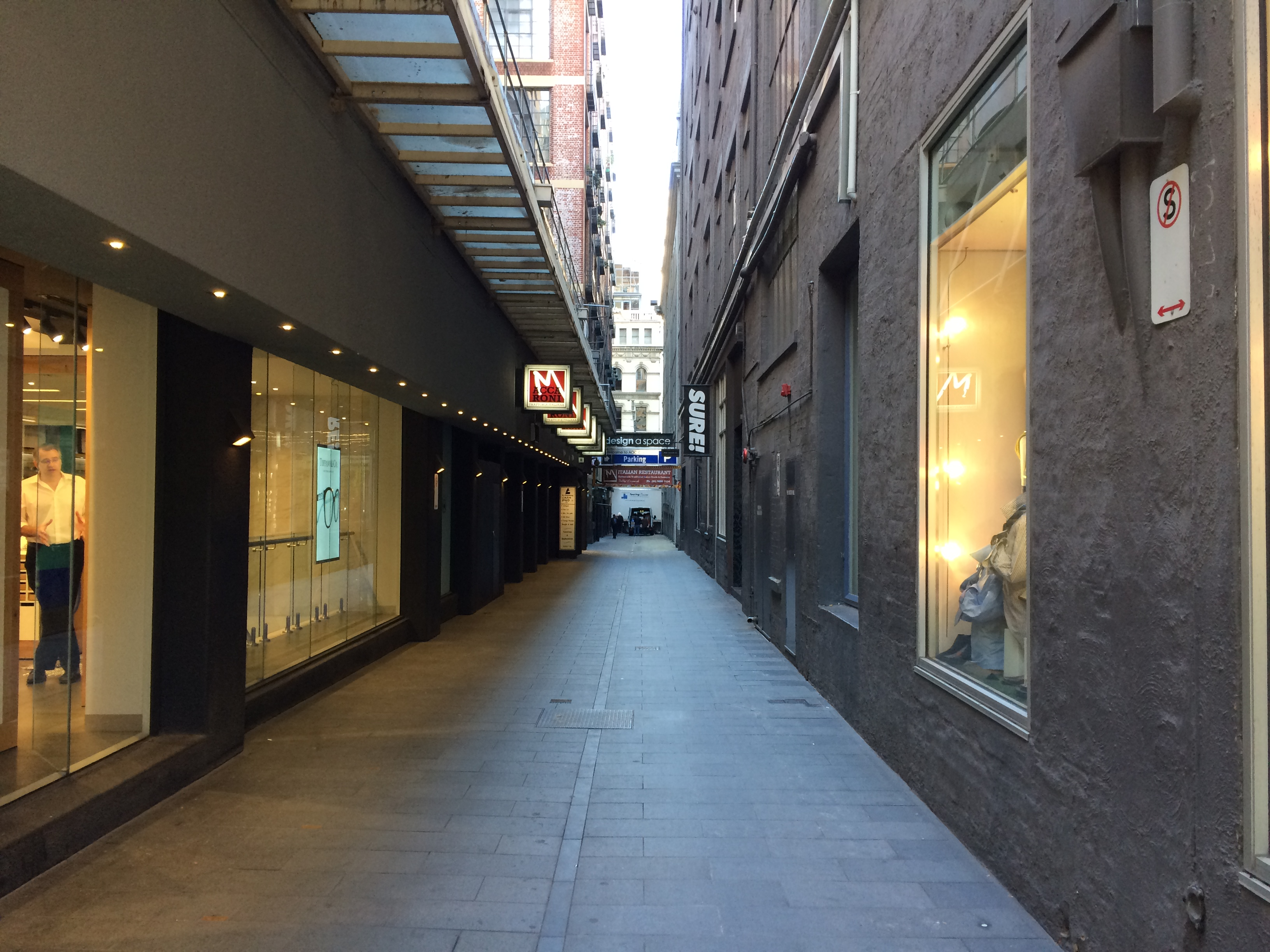 Manchester Lane in Melbourne